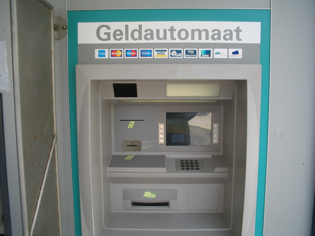 Picture of an ABN AMRO ATM